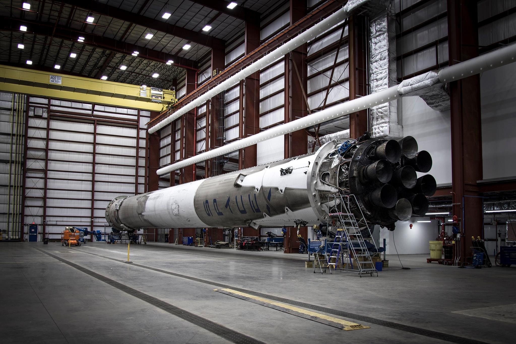 B1019, the first stage of the Falcon 9 of the Falcon 9 Flight 20 after landing at Cape Canaveral and being moved back to the SpaceX hangar.